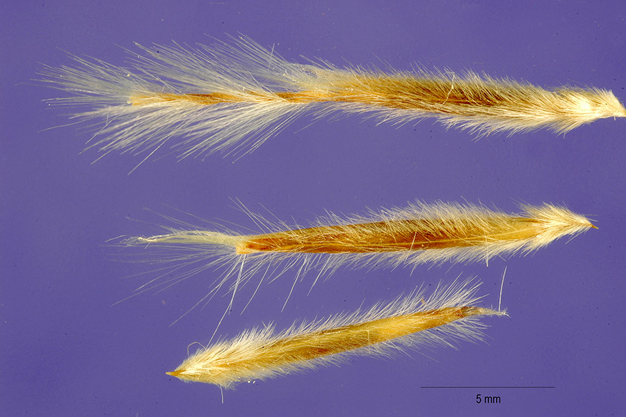 Seeds of Stipa tenacissima